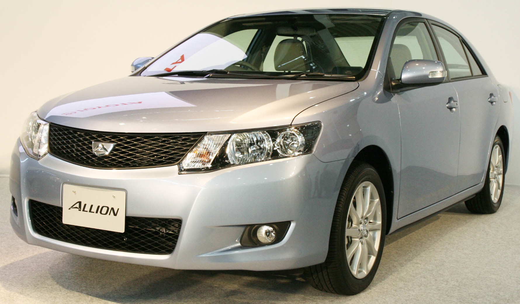 Toyota Allion photographed in MEGAWEB.